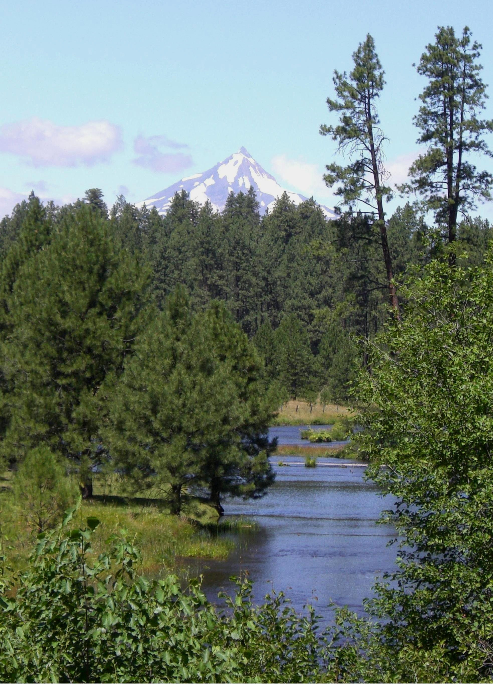 View of Mt Jefferson from the viewing area at the Head of the Metolius near Camp Sherman in central Oregon